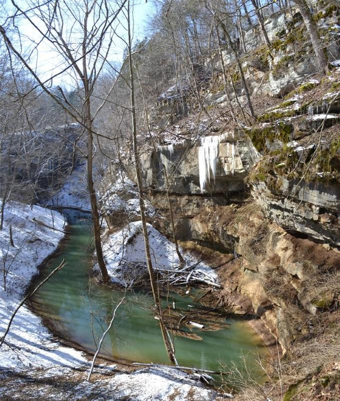 Cedar Sink stream in Mammoth Cave National Park in February 2011 following a snow.